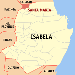 Map of Isabela showing the location of Santa Maria